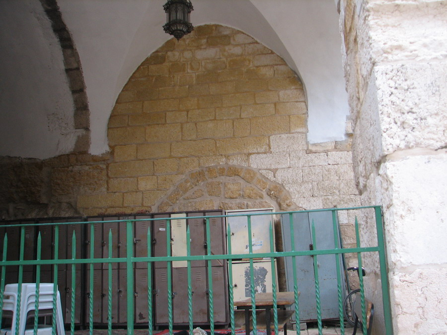 Jerusalem, Temple mount, Gate of the funerals (Bab al-Jana'iz)